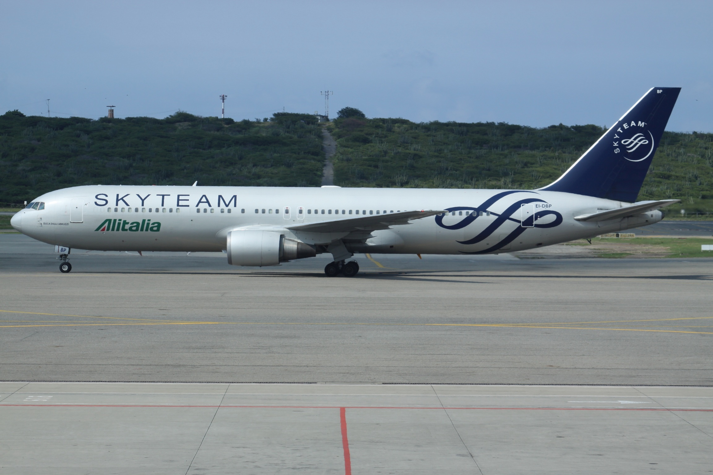 At Caracas Simón Bolívar International